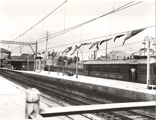 Sutherland Railway Station decorated for the visit of Queen Elizabeth II Dated: 11/02/1954 Digital ID: 17420_a014_a014000172 Rights: We'd love to hear from you if you use our photos. Many other photos in our collection are available to view and browse on our website using Photo Investigator.